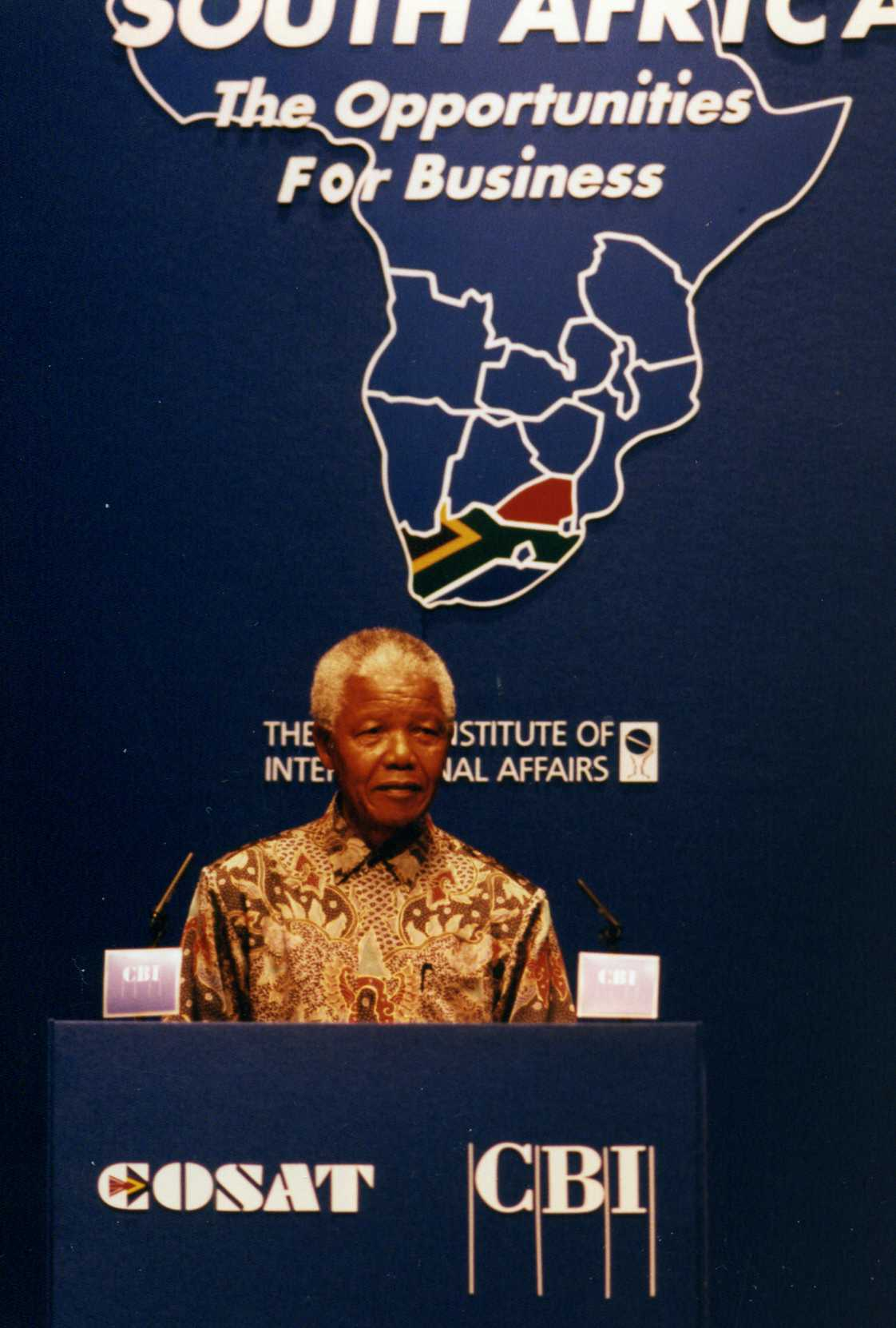 Nelson Mandela at the 'South Africa: The opportunity for business' conference, Chatham House.